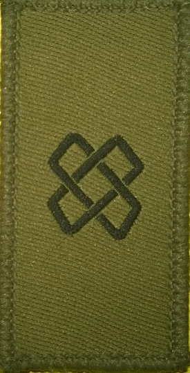 Logistics insginia (Swiss army)